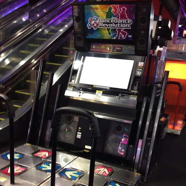 A DDR machine in a mall.